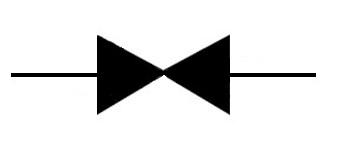 Gunn diode electronic symbol